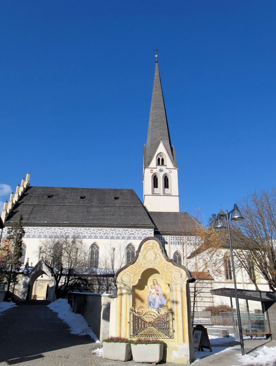 Imst, church "Mariä Himmelfahrt" (Assumption)